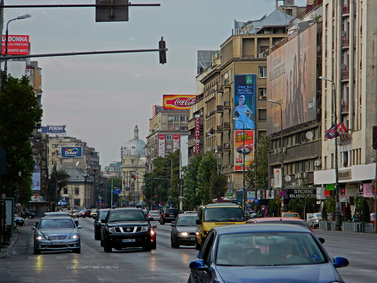 Magheru Boulevard, Bucharest